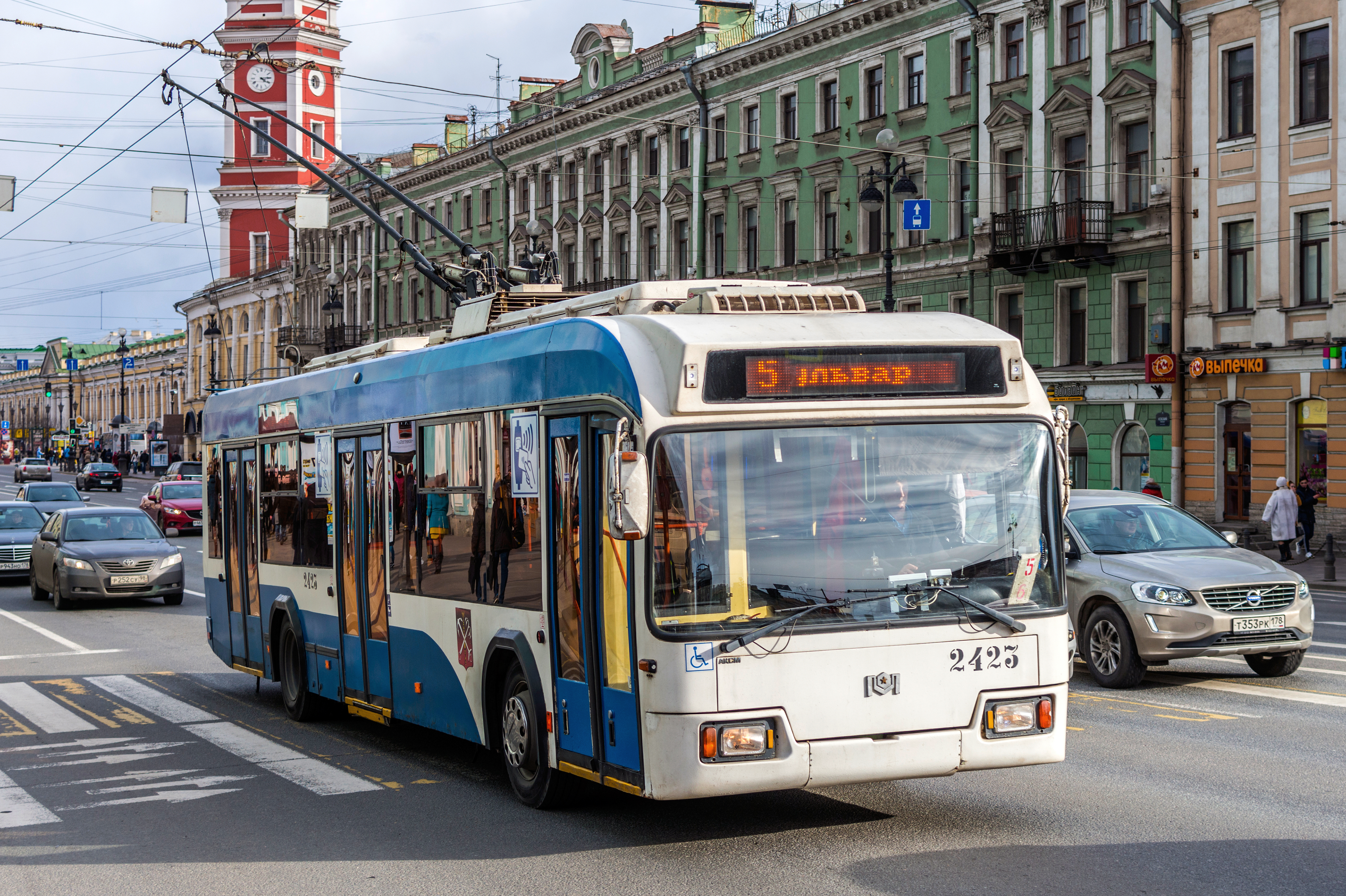 Trolleybus BKM-321 (ASKM-321) on Nevsky Avenue in Saint Petersburg